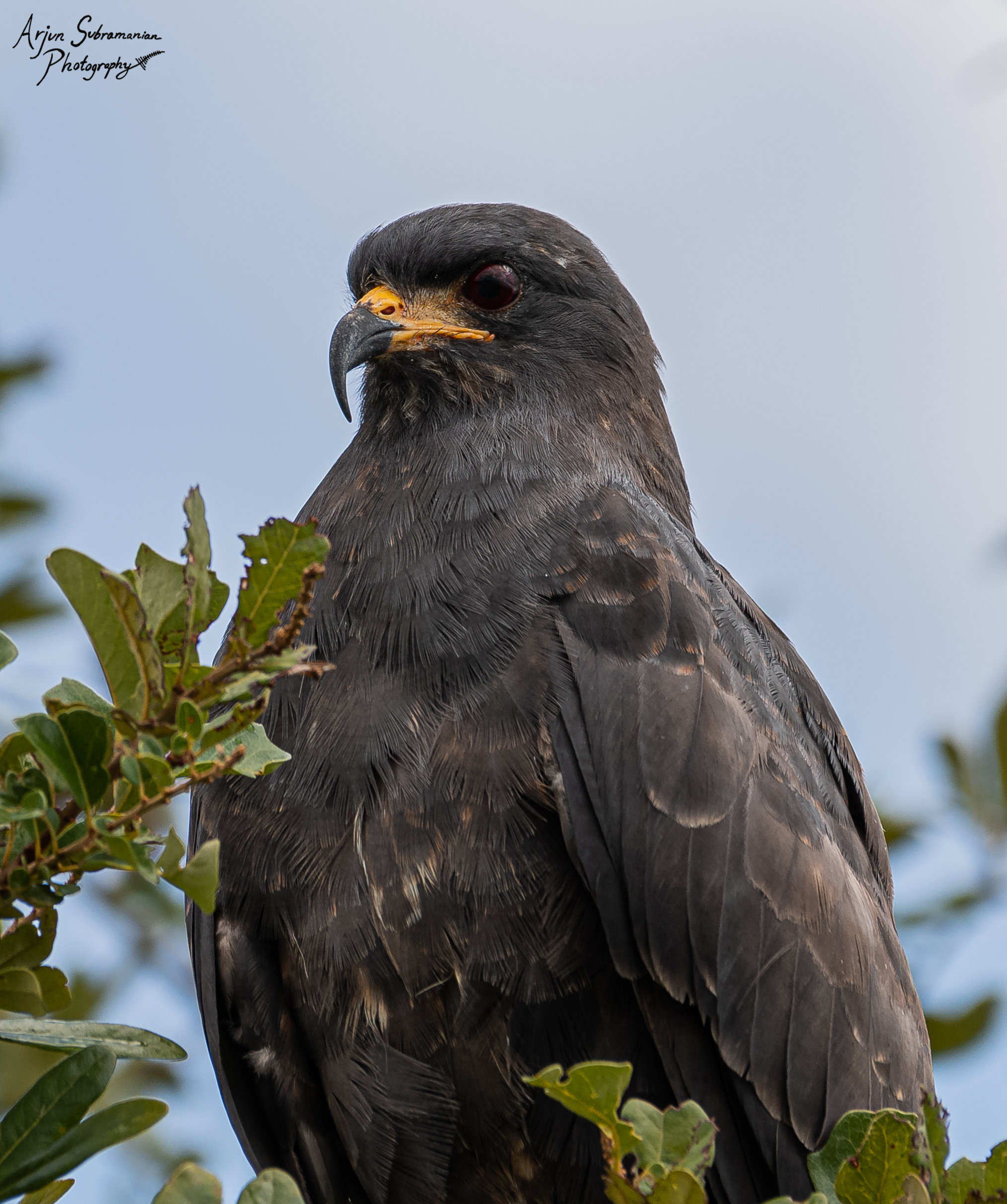 An adult male Everglades snail kite sitting on a branch.